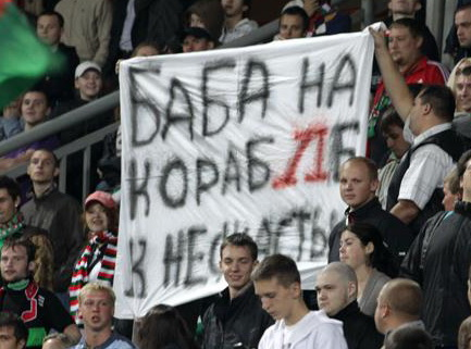 Lokomotiv Moscow supporters